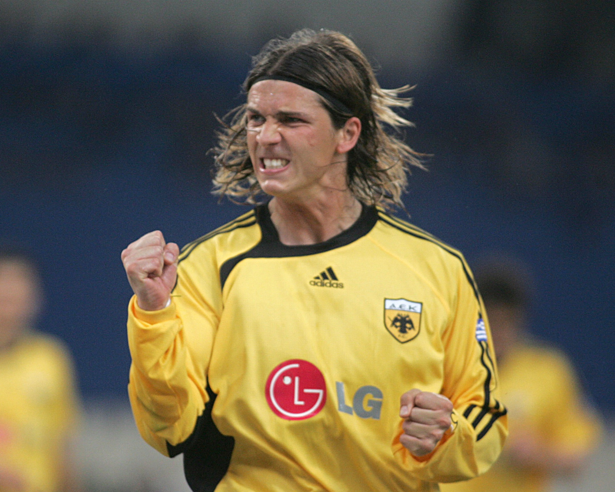 AEK - Aigalew, personal photo edit